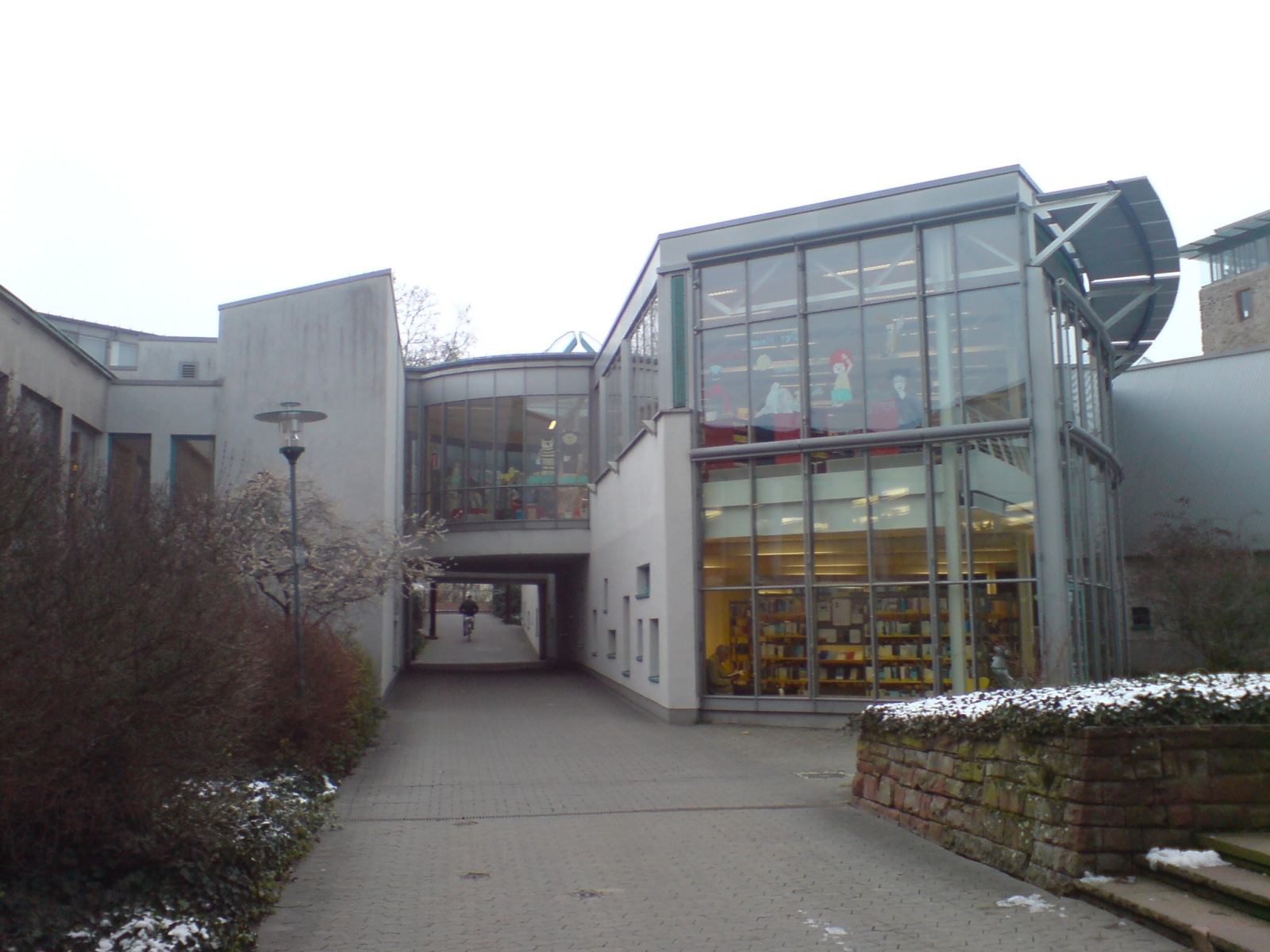 A central city library (Justus-Liebig-Haus) in Darmstadt,Germany.